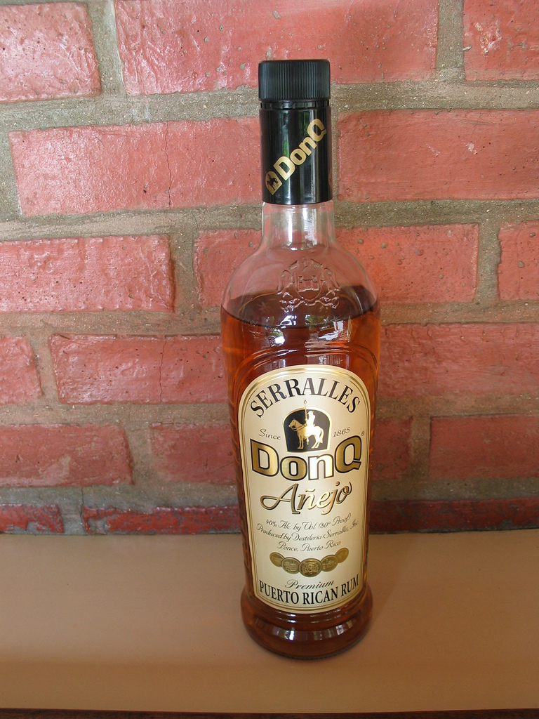 A bottle of Puerto Rican rum "Don Q" (Añejo, means "aged" in Spanish) produced by the Ponce, Puerto Rico-based "Destileria Serralles" rum destillery.